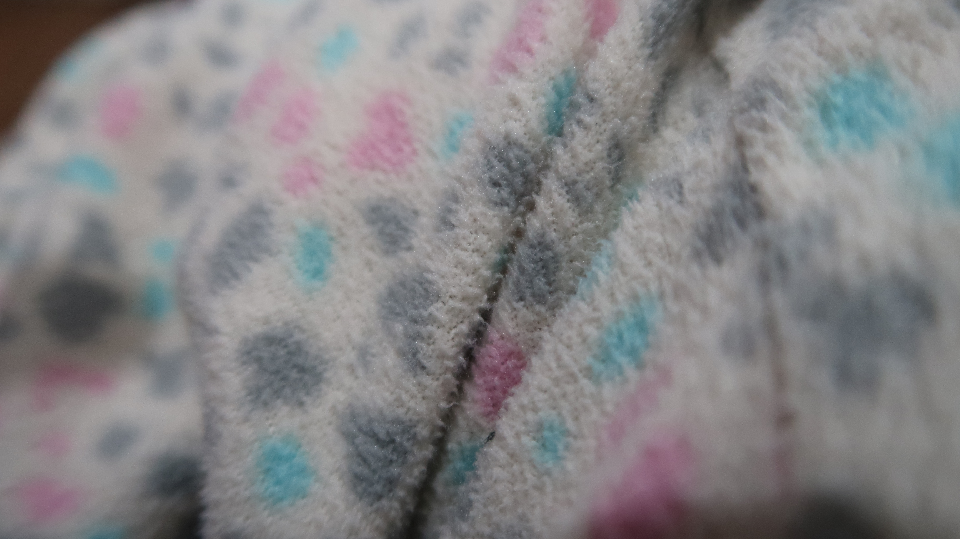 Textured